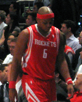 Bonzi Wells returns to the bench with an injured Tracy McGrady, during an away game at Madison Square Garden.